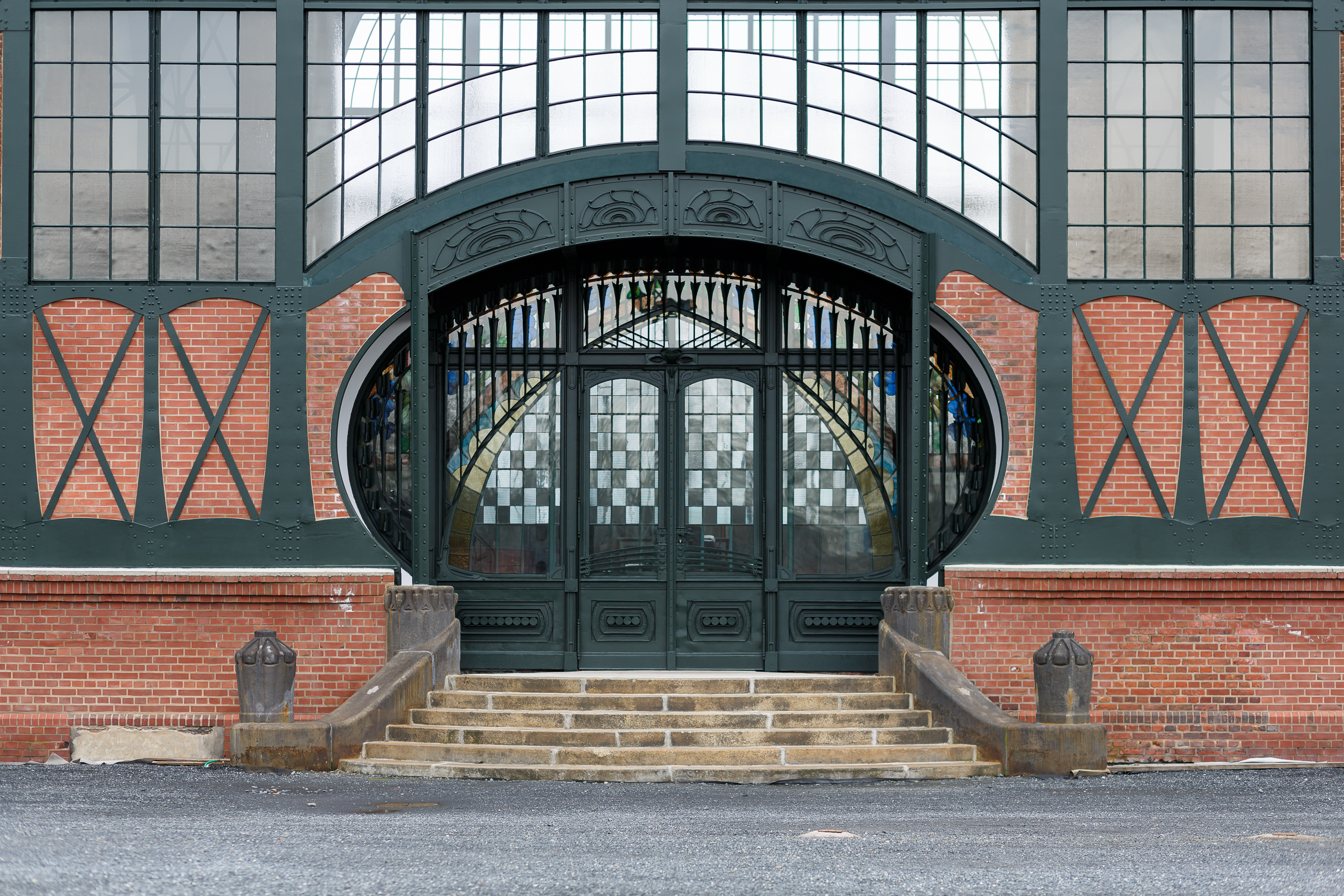 Dortmund, Germany: Main portal of the machine hall at Zollern II/IV Colliery, today a museum and listed monument of the industrial heritage. The gate is a jewel of German Art Nouveau.